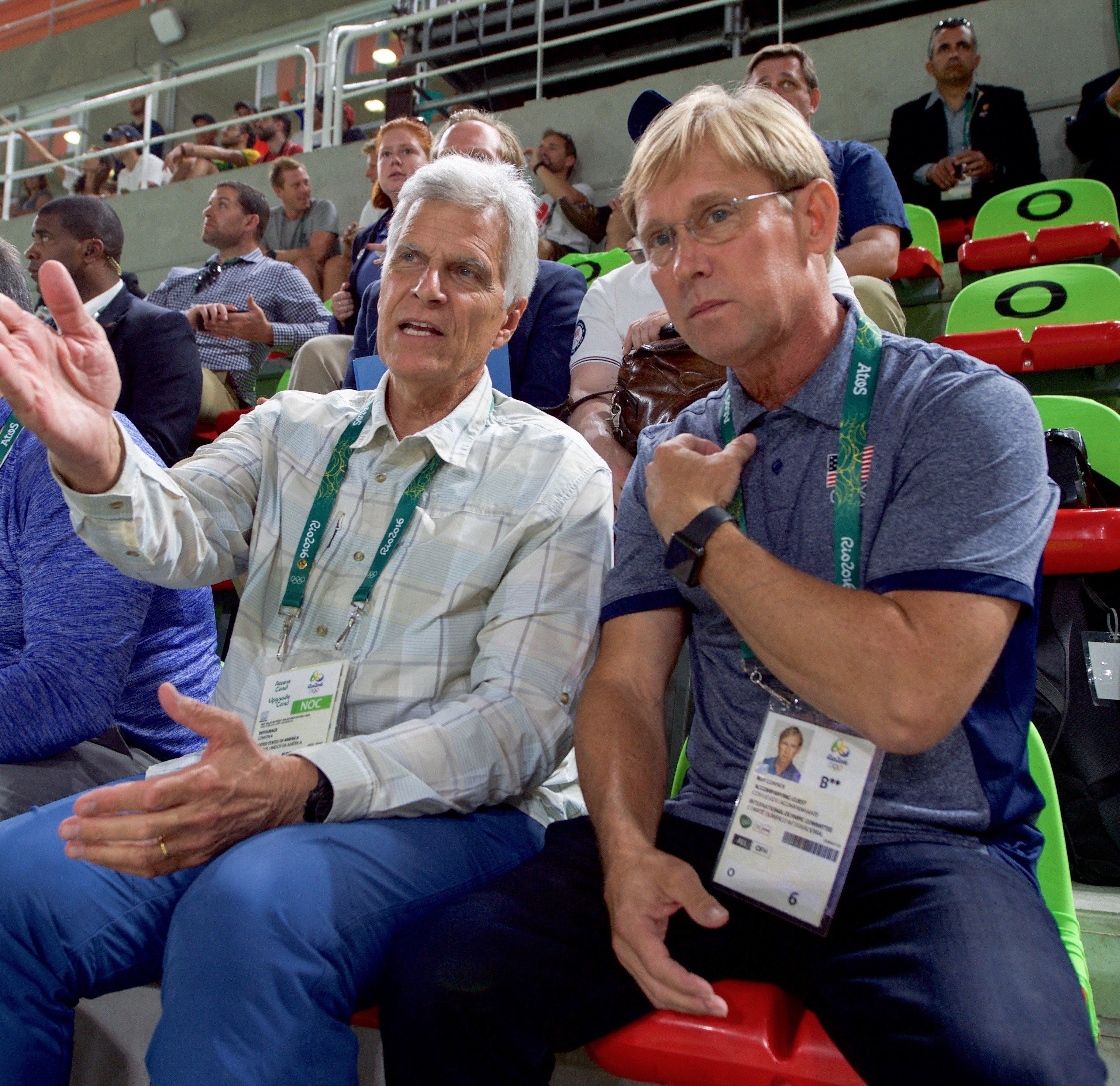 Olympic gold medal swimmer Mark Spitz speaks with Olympic gymnast Bart Conner during a preliminary round of men's gymnastics at Olympic Park in Rio de Janeiro, Brazil, on August 6, 2016, as U.S. Secretary of State John Kerry and his fellow members of the U.S. Presidential Delegation attend the Summer Olympics. [State Department Photo/ Public Domain]